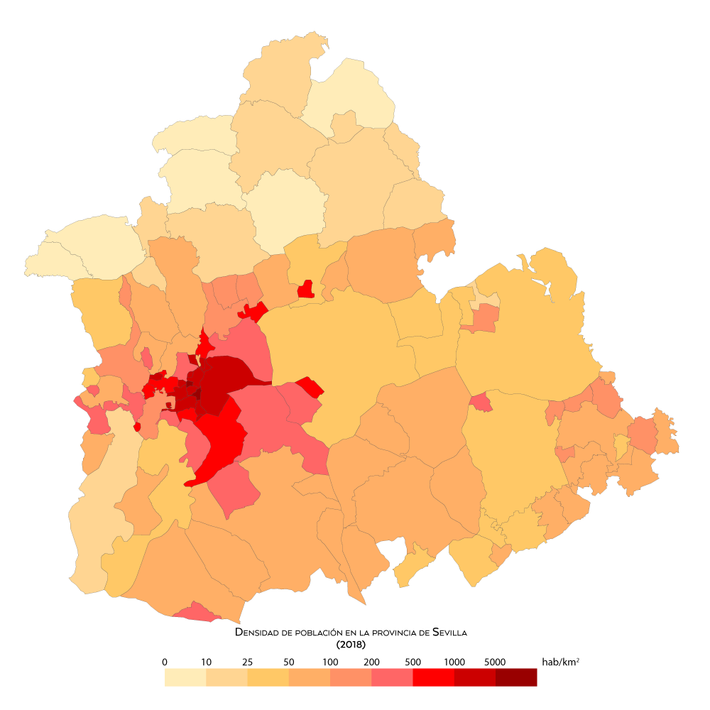 Population density en the province of Seville (Spain) 2018